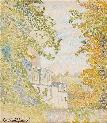 Le manoir